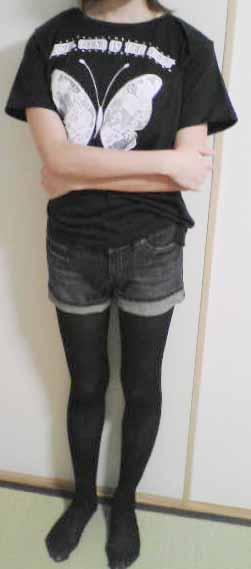 a woman wearing hot-pants